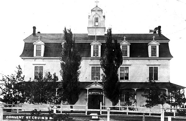 Postcard of Convent, ca. 1910. Provincial Archives of New Brunswick number P78-20.